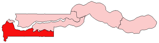 Map of The Gambia showing Western Division; created with the GIMP. Made by User:Acntx